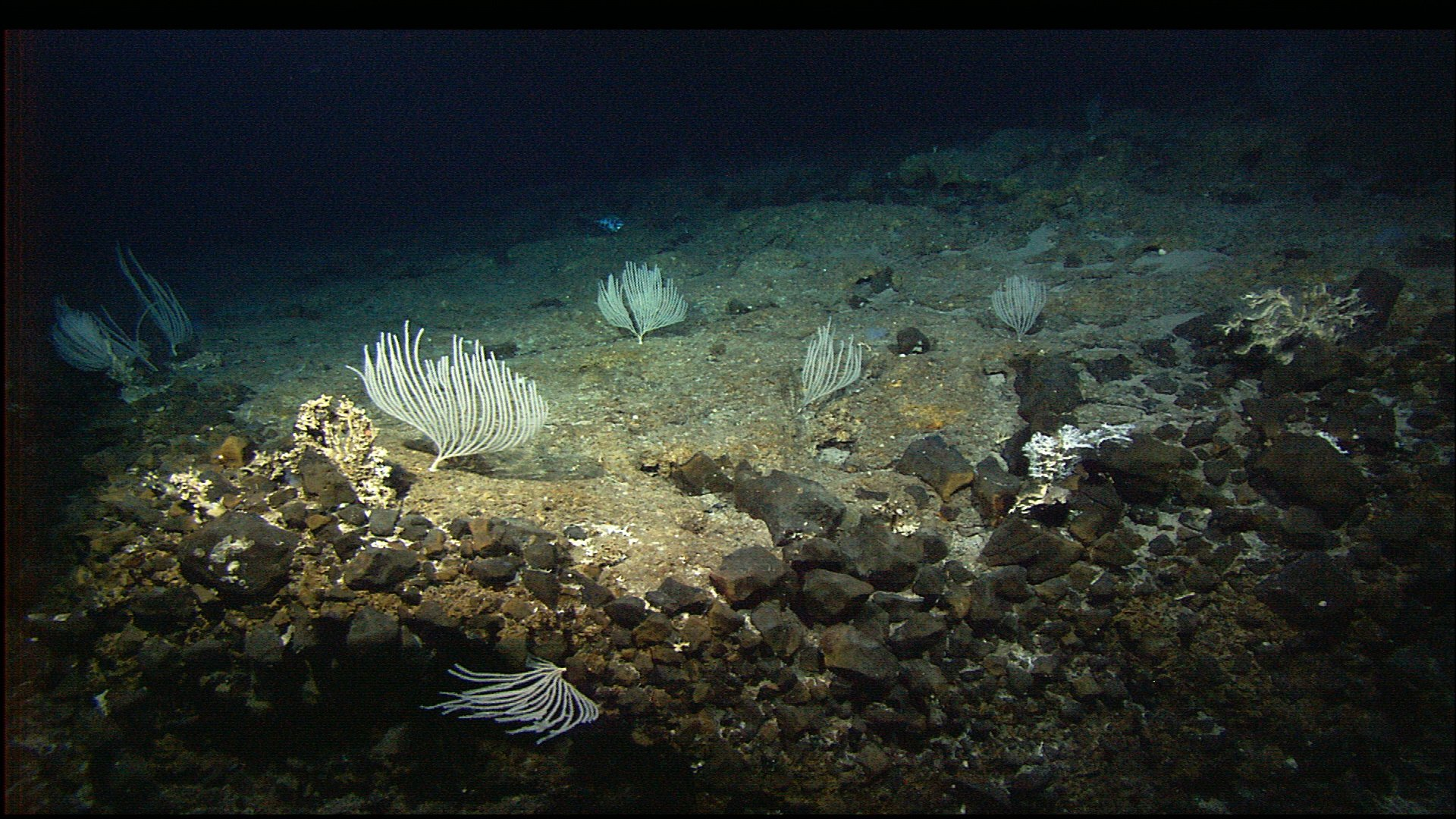 Graceful white corals reminiscent of candelabras on the seafloor of Atlantis Massif. What appears to be a spotted fish hovers over the center coral. Atlantic Ocean, Mid-Atlantic Ridge.